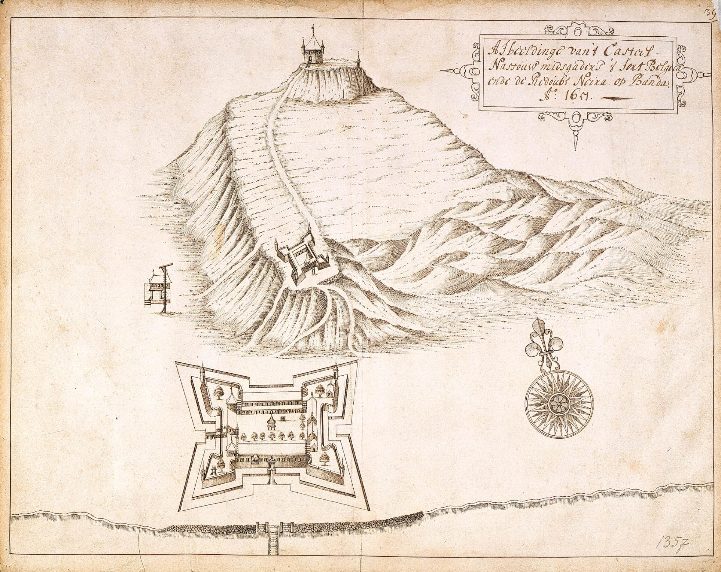 According to the Leupe catalogue (NA), the original title reads: Afbeeldinge van 't Casteel Nassauw, mitsgaders 't fort Belgica ende redoubt Neira op Banda. Belongs with the report of Arnold de Vlamingh van Outshoorn. Numbered top right: 392. The edges have been reinforced on the back. Notes on reverse: 392 [must refer to the folio number in the OBP volume]/664[the letter following the number has been obscured by a strip of paper].